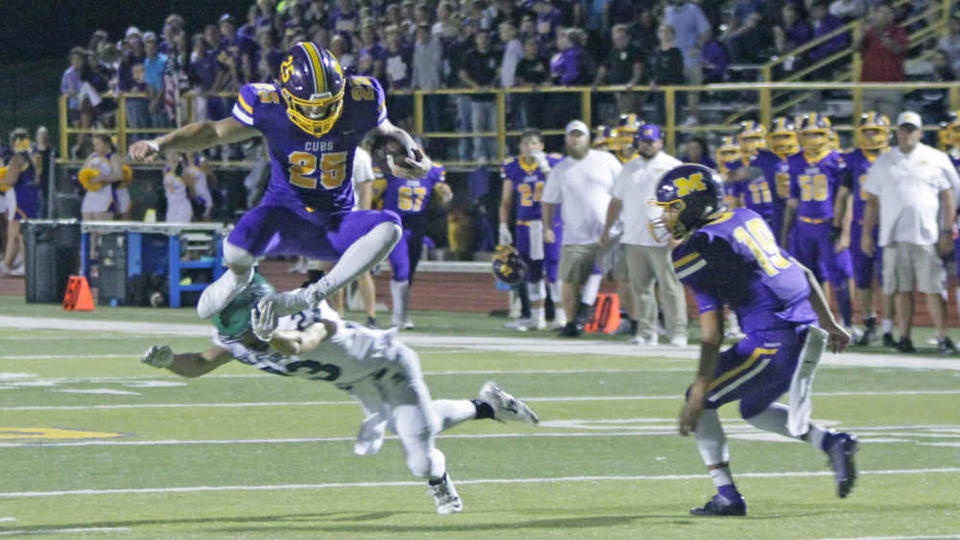 Monett Football player mid air